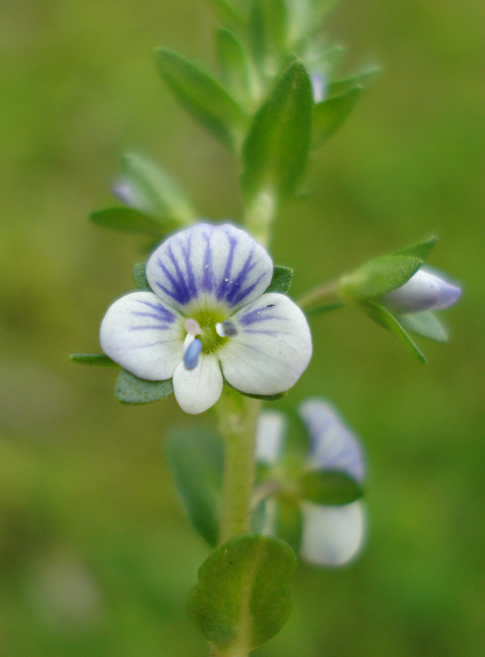 Veronica serpyllifolia (Unterfranken, Germany)